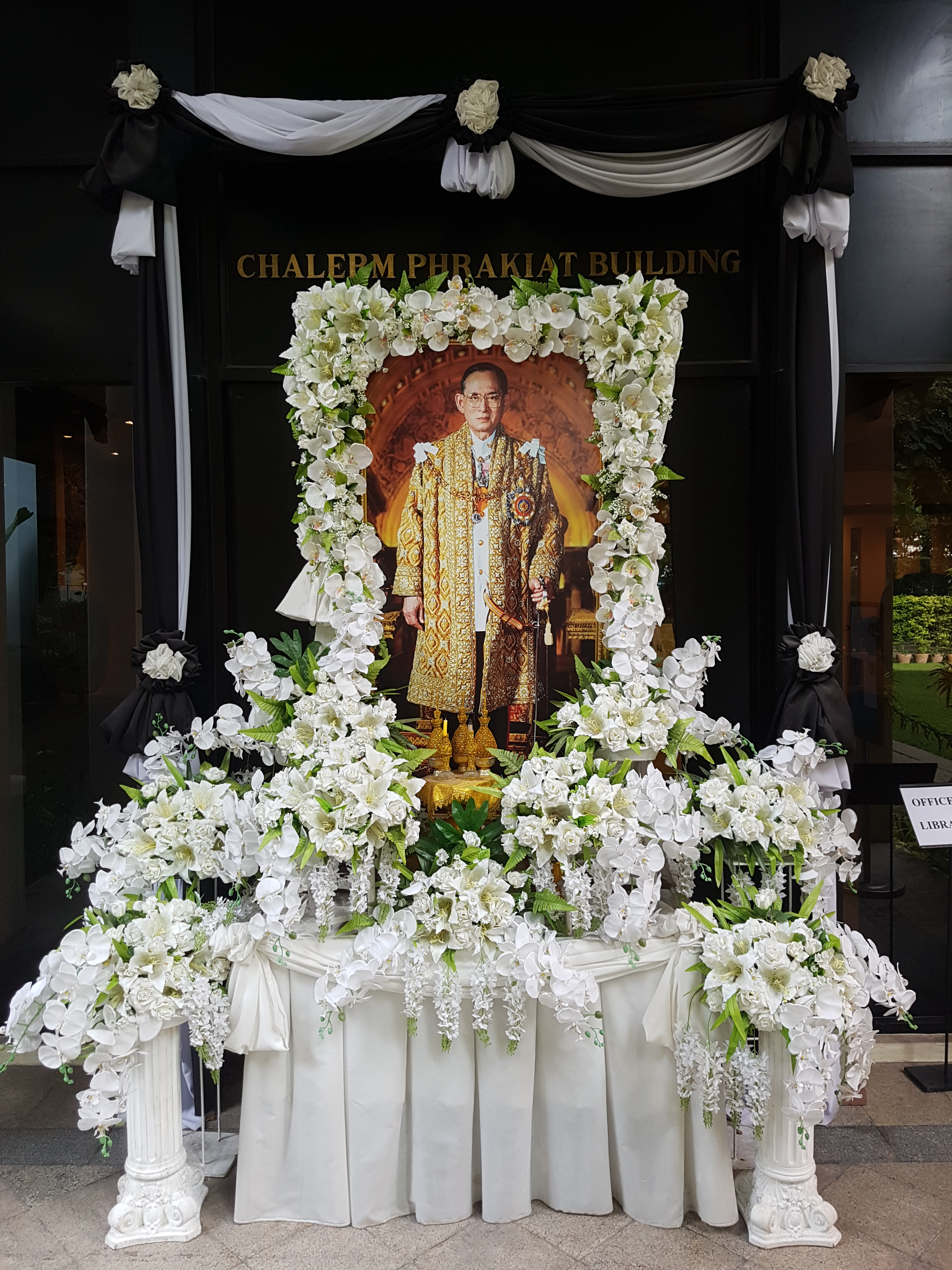 Place: Siam Society Headquarters, Bangkok, Thailand.